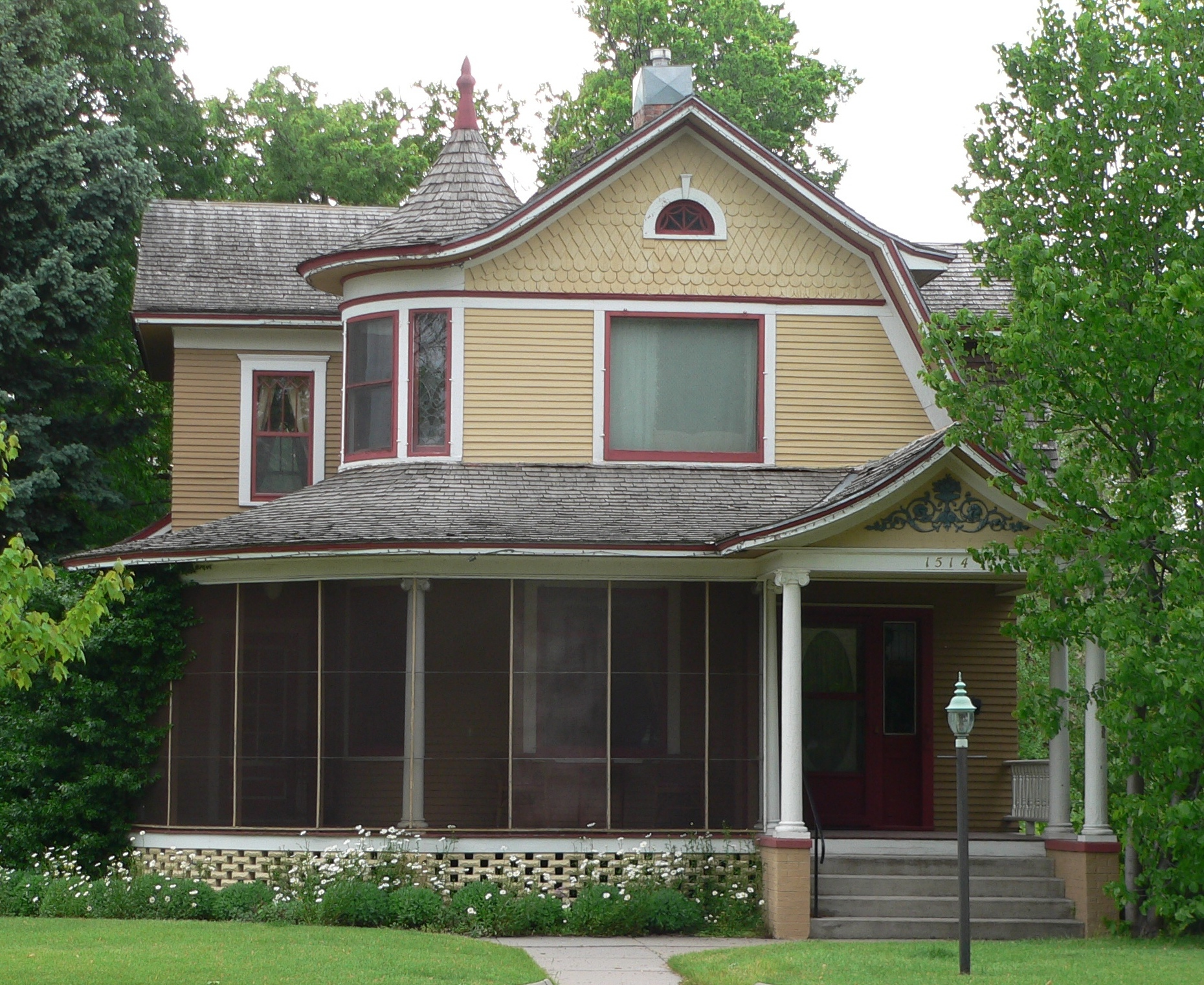 Ernest A. Calling House in Gothenburg, Nebraska; seen from the east. The Queen Anne house was built in 1907. It is listed in the National Register of Historic Places.